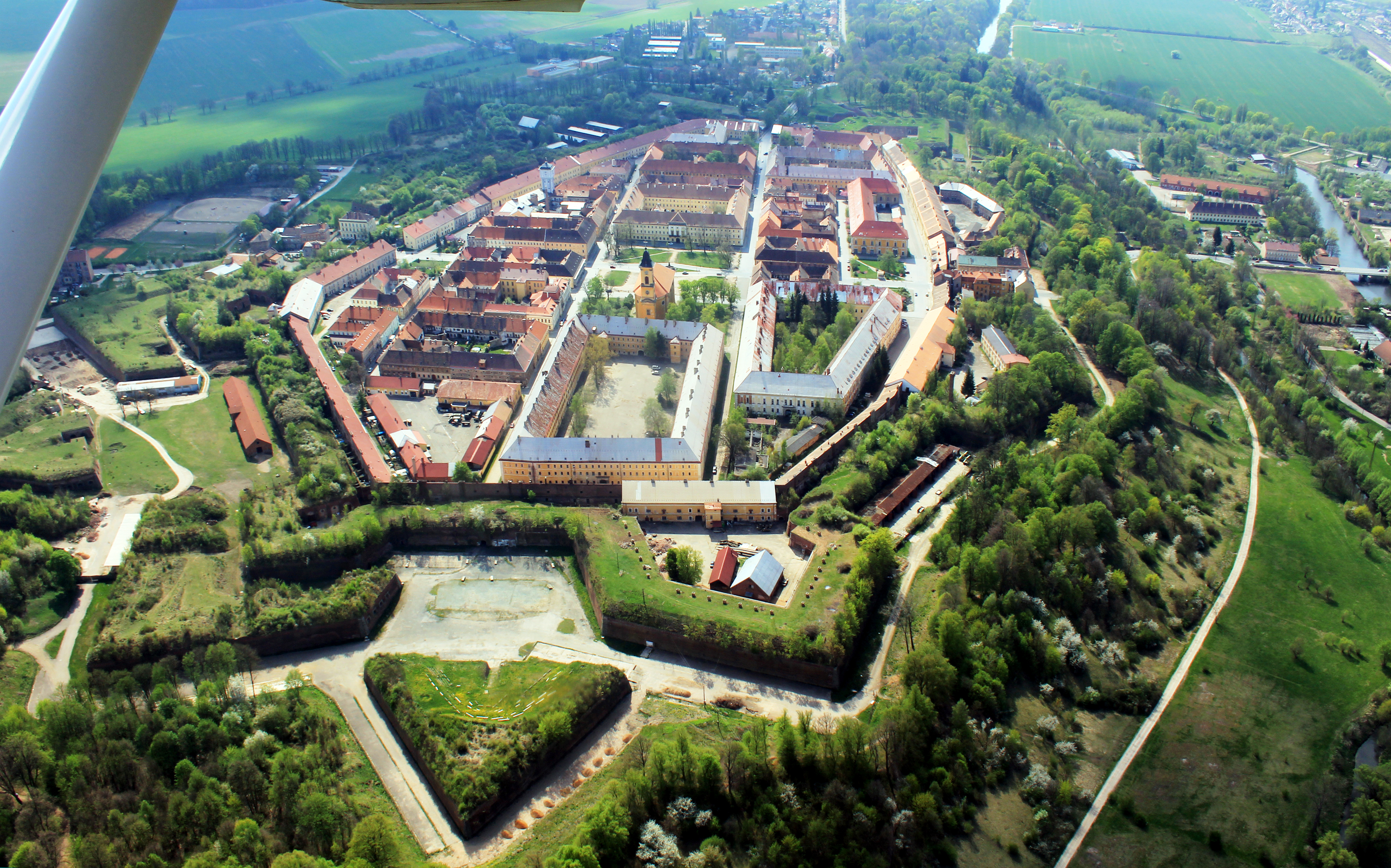 Fortress Josefov near of Jaroměř from air, eastern Bohemia, Czech Republic Česky: Letecký pohled na pevnost Josefov poblíž Jaroměře, východní Čechy